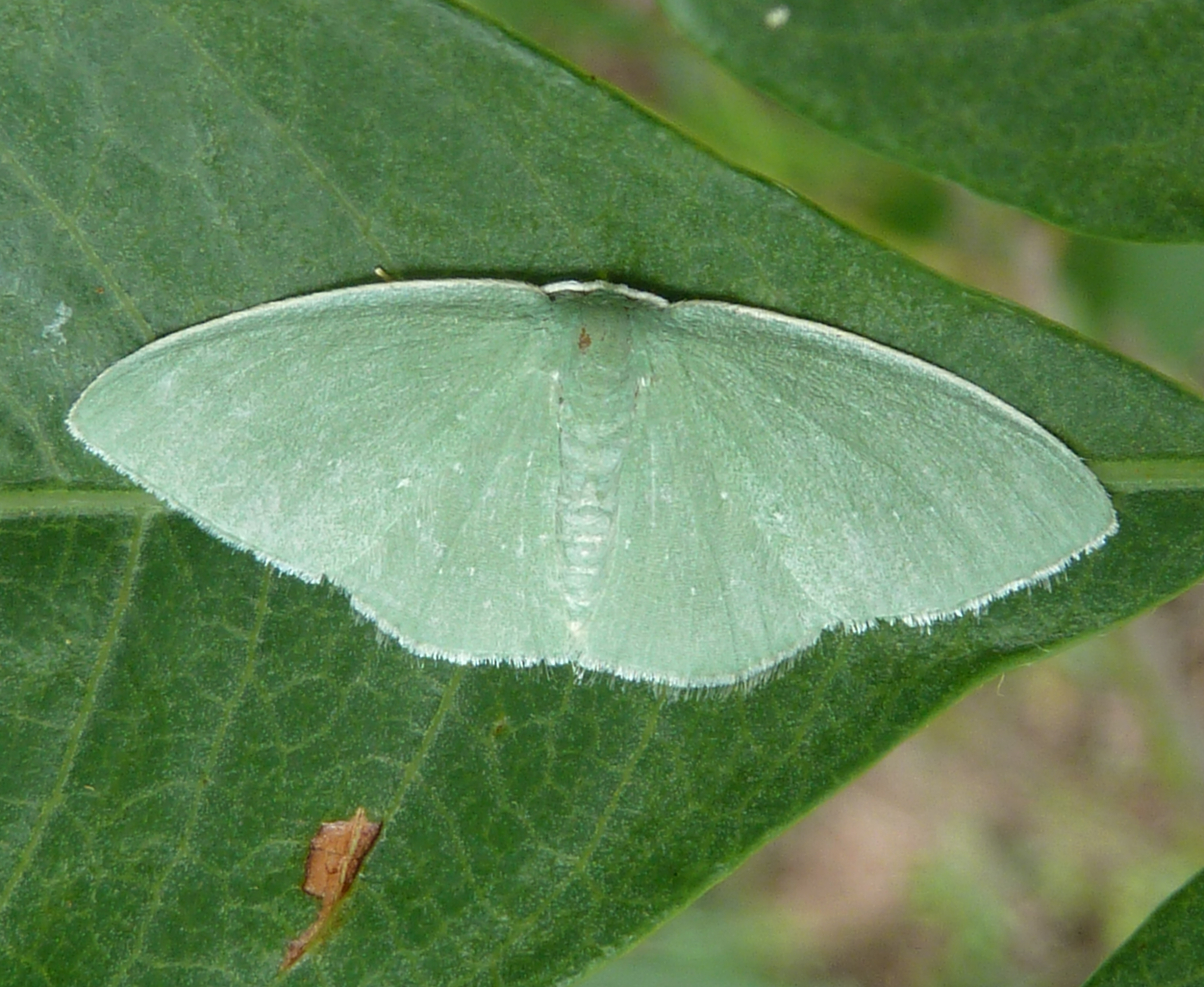 Syndromodes invenusta on an African false currant leaf in Roodeplaat Nature Reserve near Pretoria